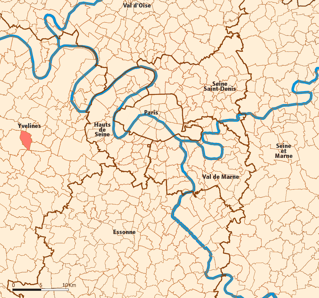 Created map myself.